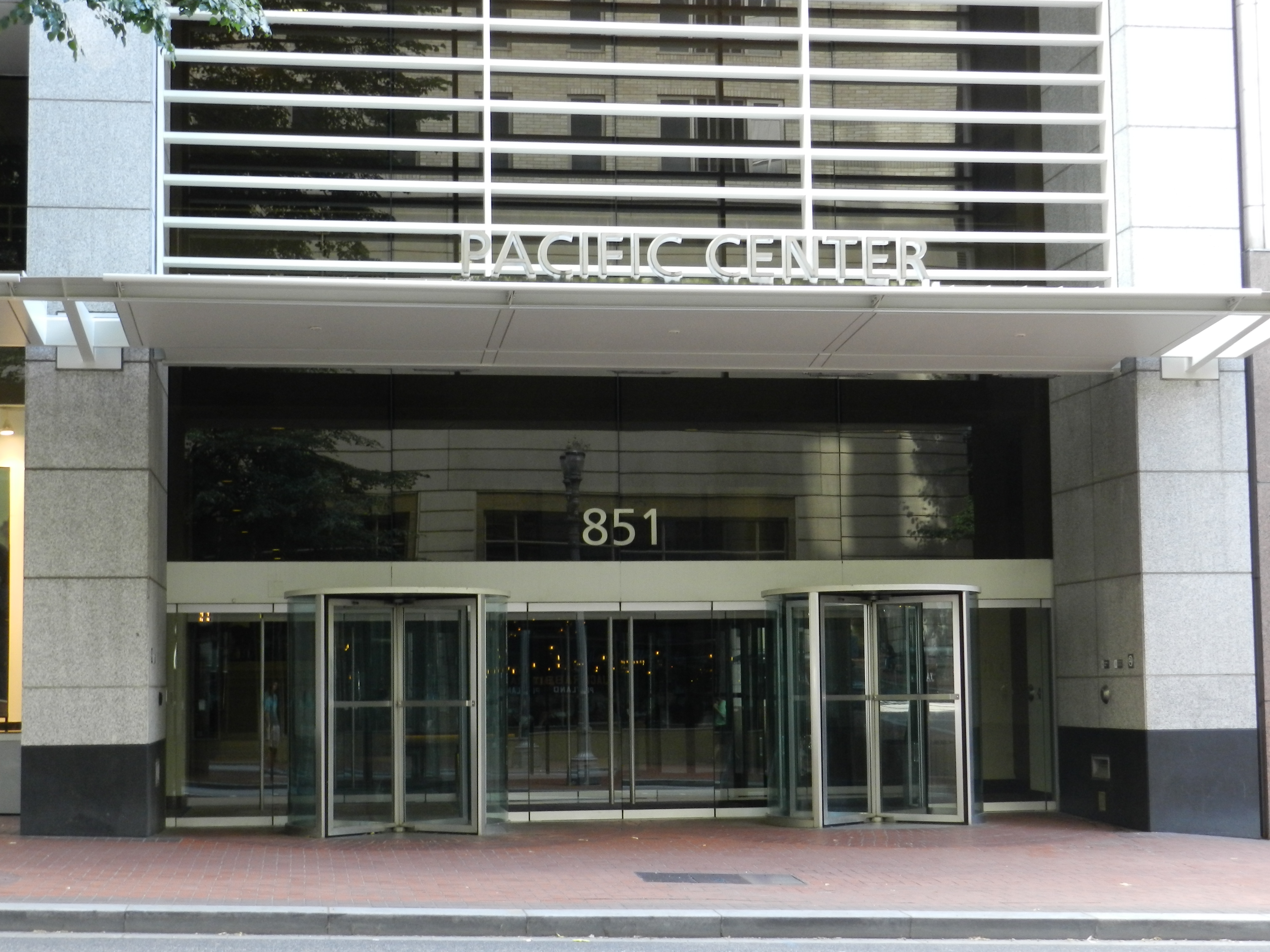 Photograph of the entrance to the Pacific First Center in Portland, Oregon.